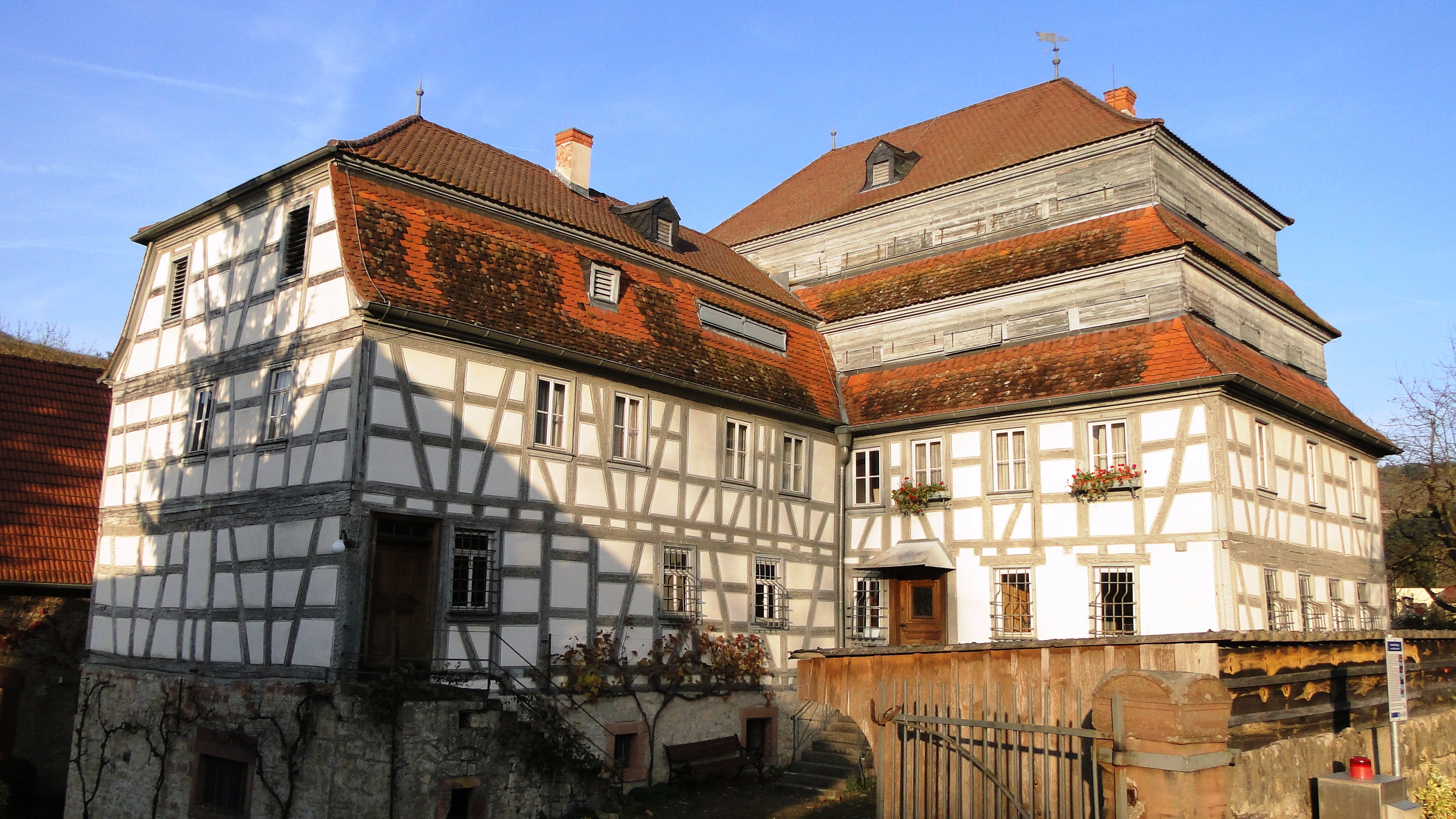 Paper mill at Homburg am Main, Triefenstein